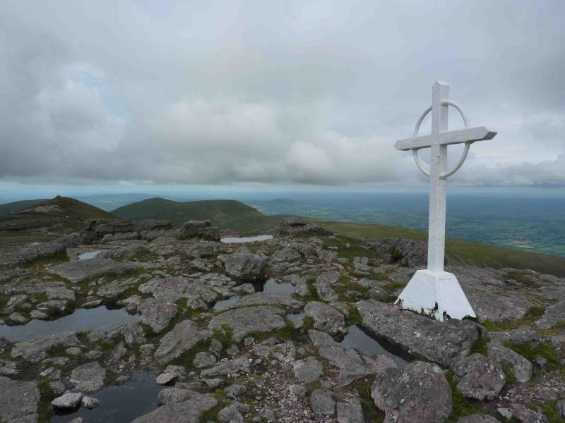 Picture of the iron white cross at the summit of Galtymore, Galtee Mountains, Limerick/Tipperary, Ireland